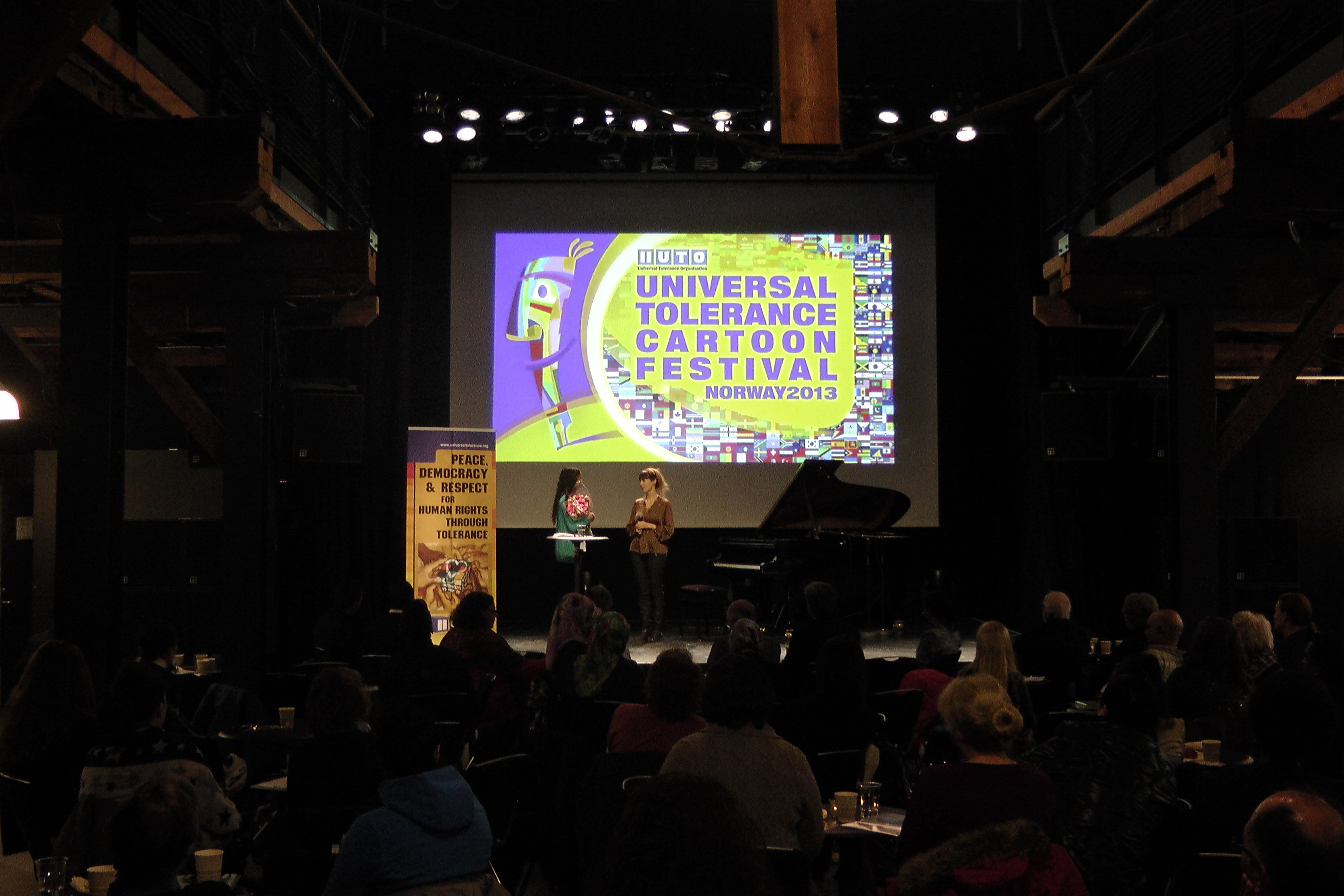 Universal Tolerance Cartoon Festival, Drammen, Norway 2013